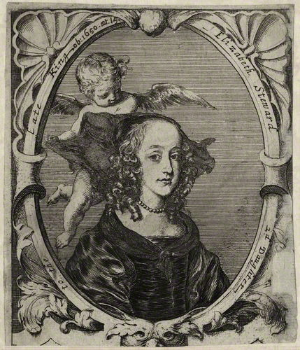 Portrait of Princess Elizabeth (1635-1650), daughter of Charles I of England who wrote a wrenching account of her last encounter with her father, before his execution.